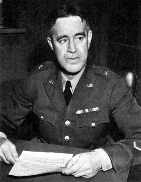 Brigadier General Cornelius Wendell Wickersham (1884–1968) was a United States army officer, a lawyer and an awarded author of philatelic literature.